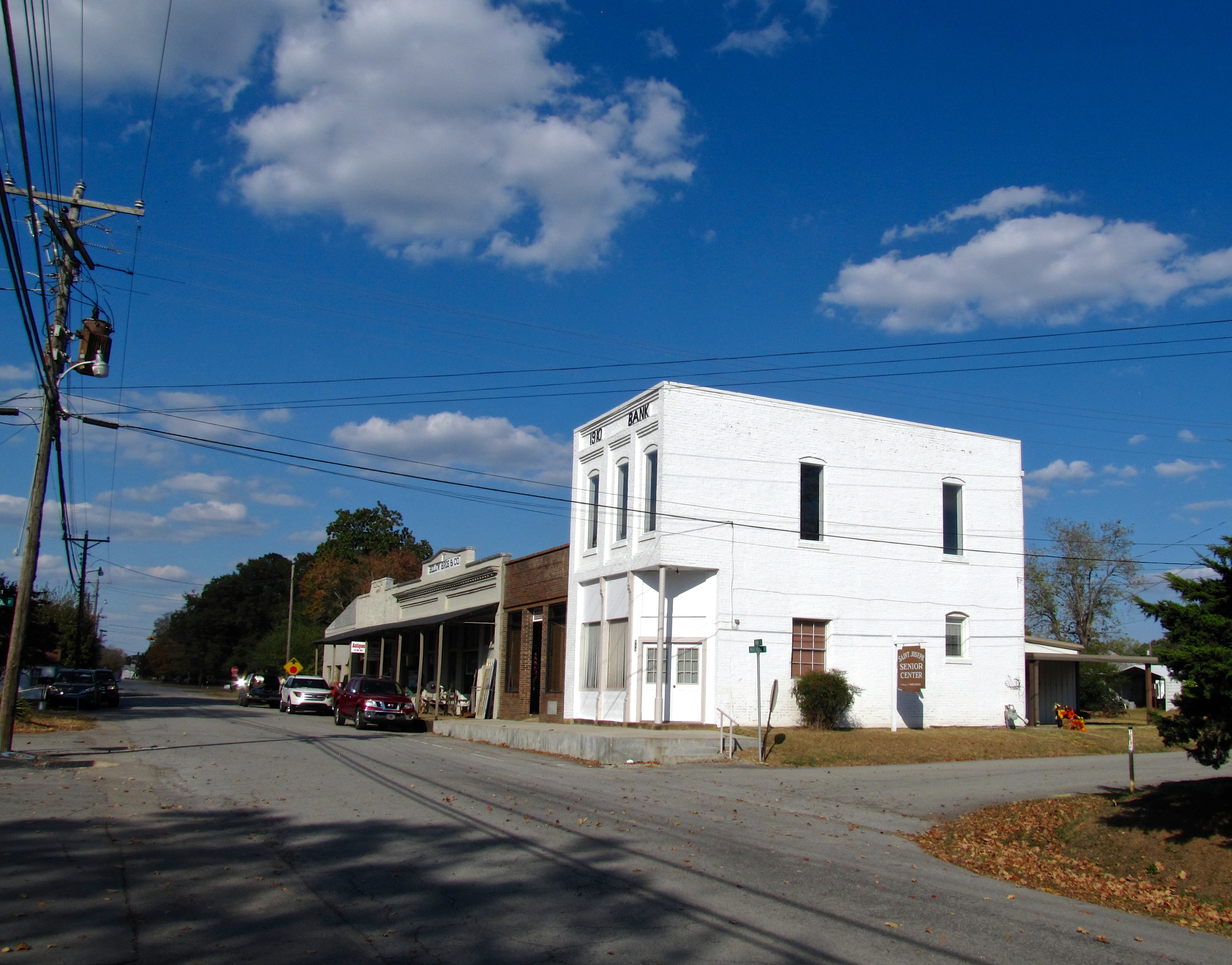 Former bank, now the St. Joseph Senior Center, and adjacent commercial block along Main Street in St. Joseph, Tennessee, United States.